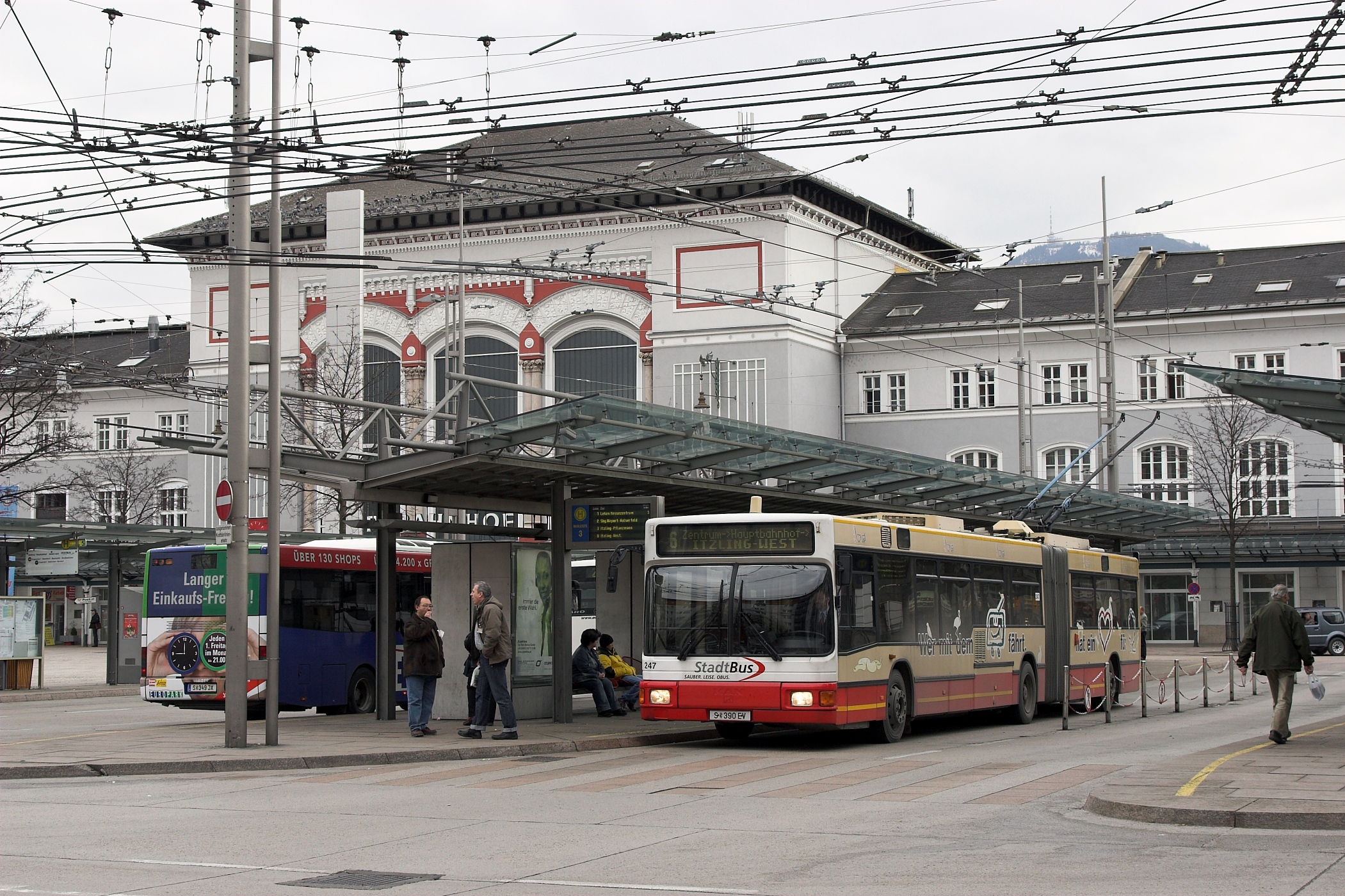 Salzburg Hauptbahnhof, the trolleybus terminal on the station square